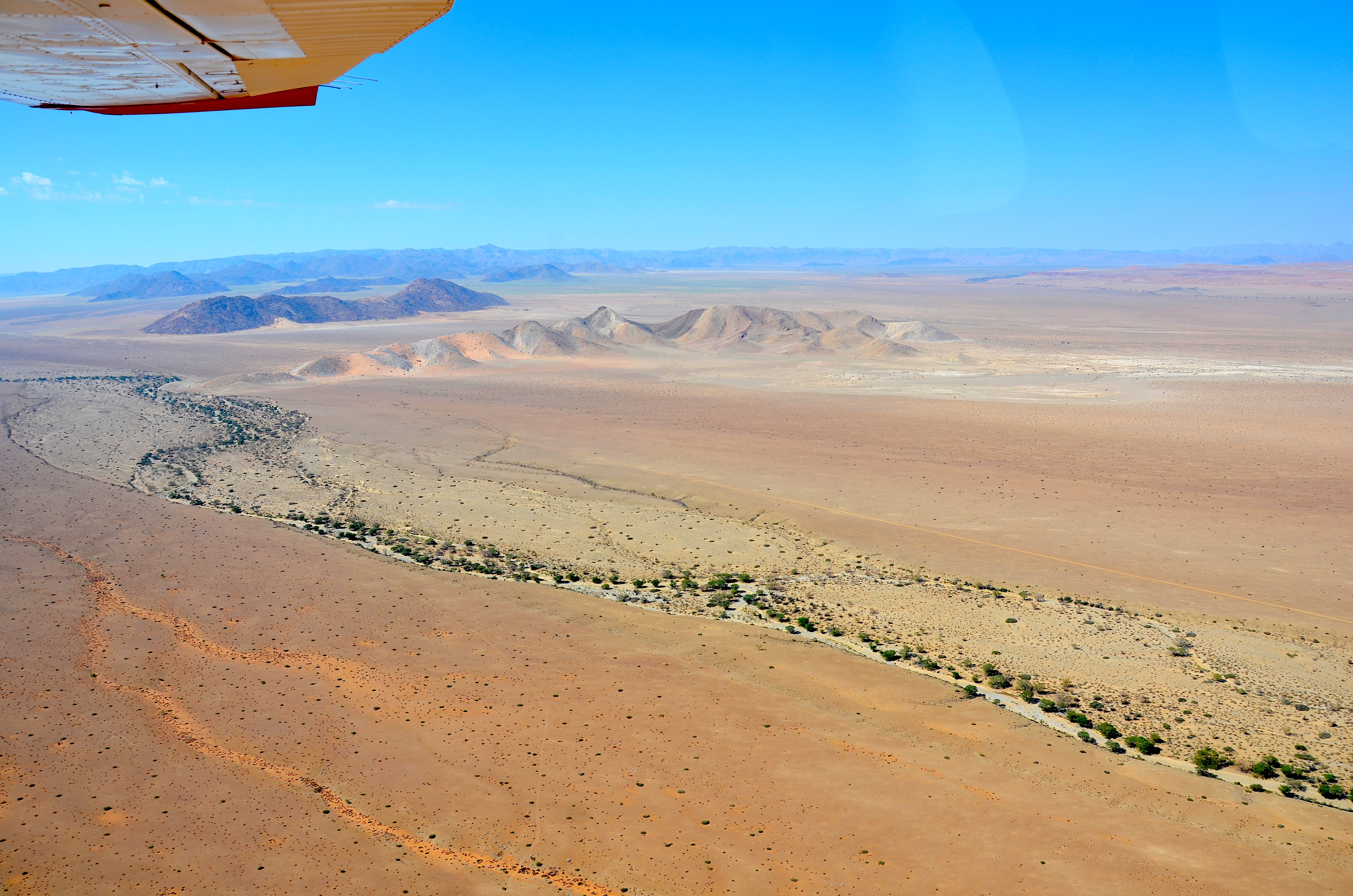 Tsondab Rivier, Namibia (2017)